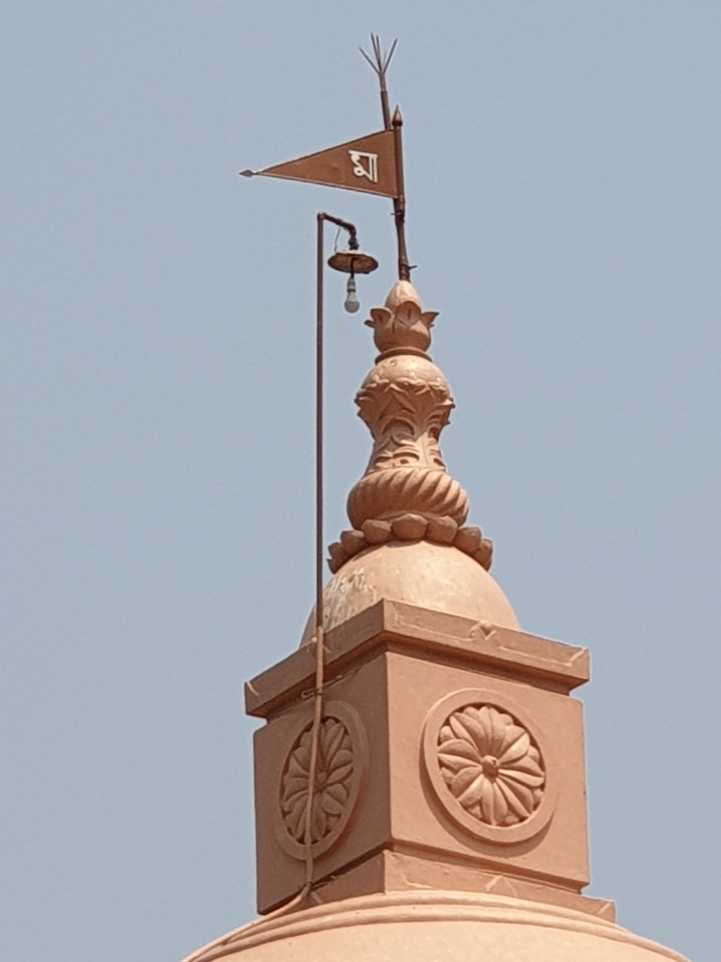 Sri Sri Matri Mandir Joyrambati Temple peak depicting the word 'Mother' in Bengali